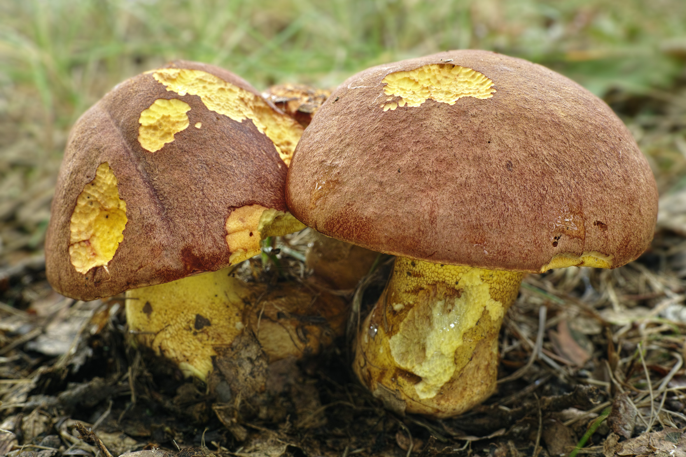 Boletus appendiculatus, Luční, Czech Republic